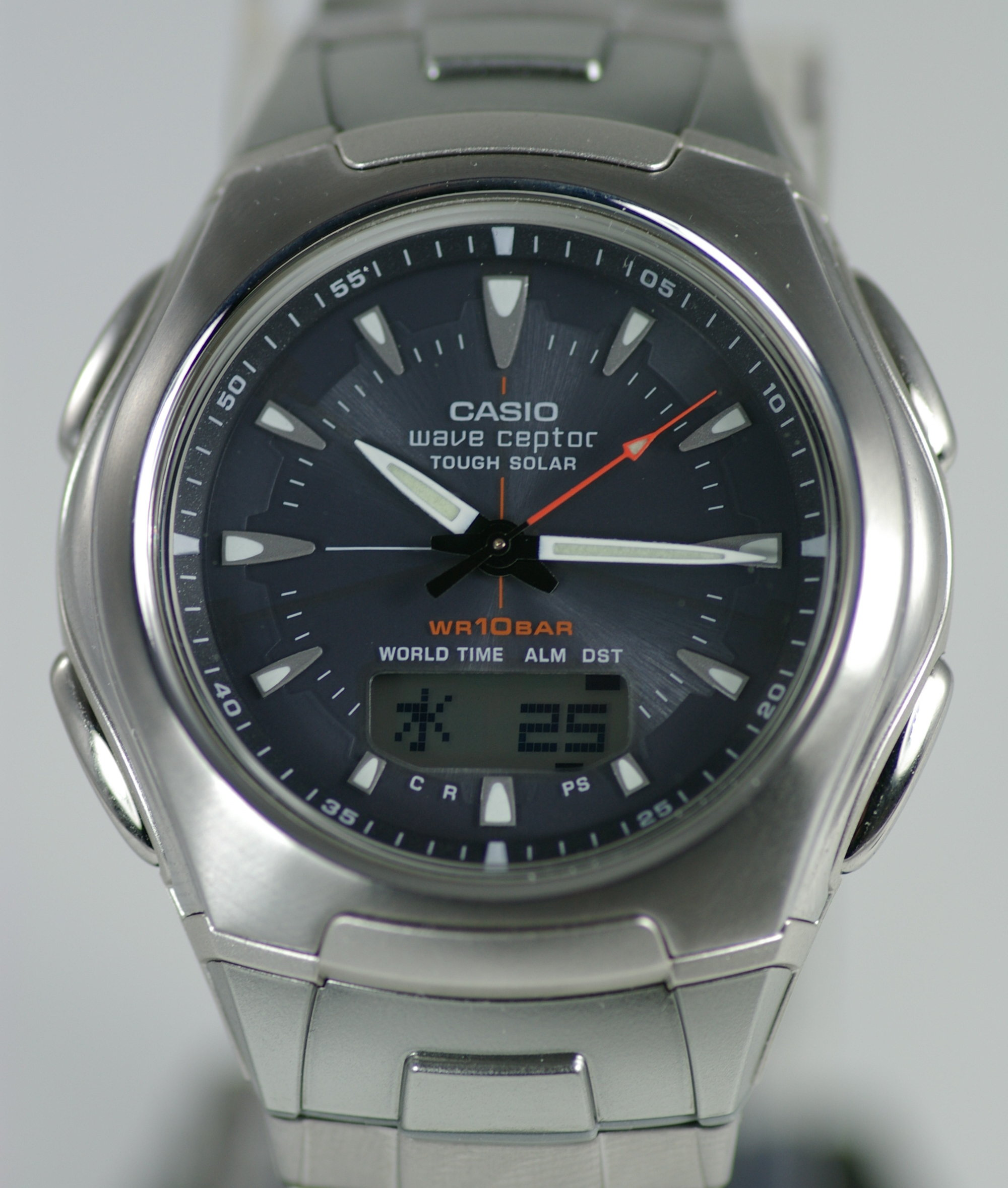 A Casio Tough Solar Wave Ceptor. The digital display is showing the character 水, short for 水曜日, Wednesday in Japanese.